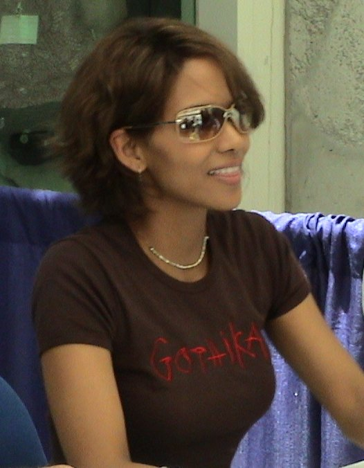 Halle Berry at ComicCon in San Diego, CA